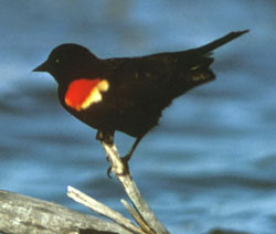 Red-winged blackbird